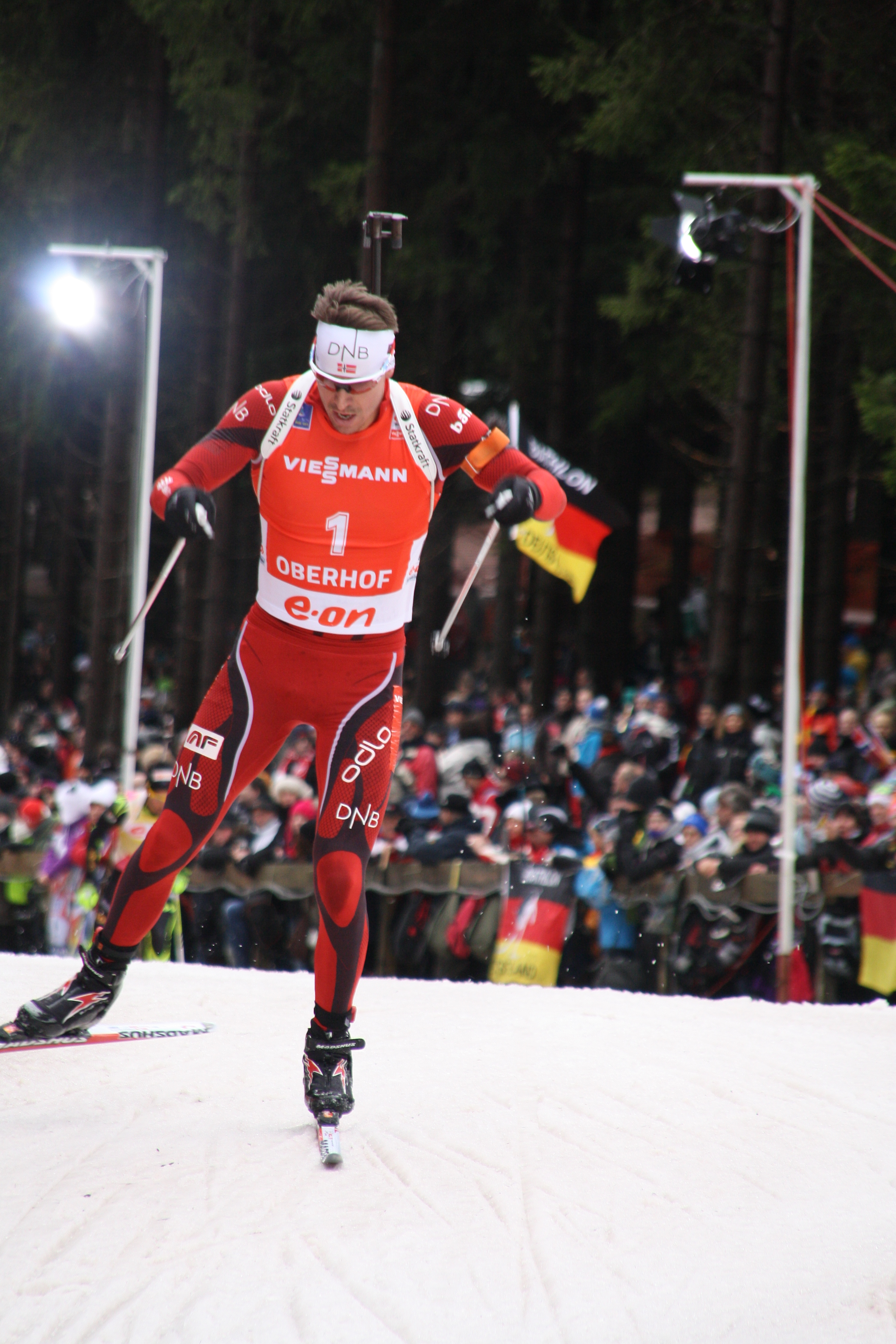 Biathlon World Cup Oberhof 2014 - Mens Pursuit